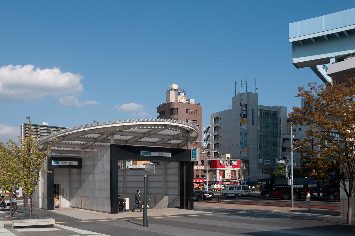 Exit 7 of Toyosu Station on the Tokyo Metro Yurakucho Line, with the end of the elevated Yurikamome tracks just visible at the top right